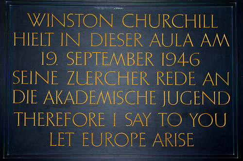 Commemorative plaque for the speech of Winston Churchill on September 19, 1946 at the University of Zürich (PDF). The final sentence: "Therefore I say to you: let Europe arise!"